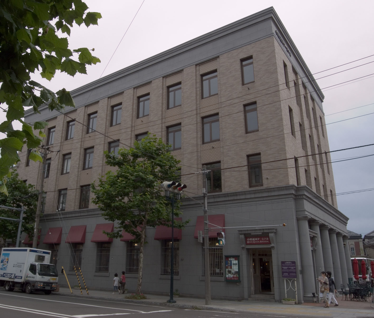 Hokkaido Chuo Bus Otaru Canal terminal, Otaru, Hokkaido, Japan